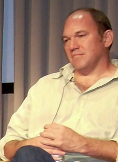 Cast Members of TV series Prison Break: Amaury Nolasco, Robert Knepper, Wade Williams, Sarah Wayne Callies, Wentworth Miller with executive producer Matt Olmstead